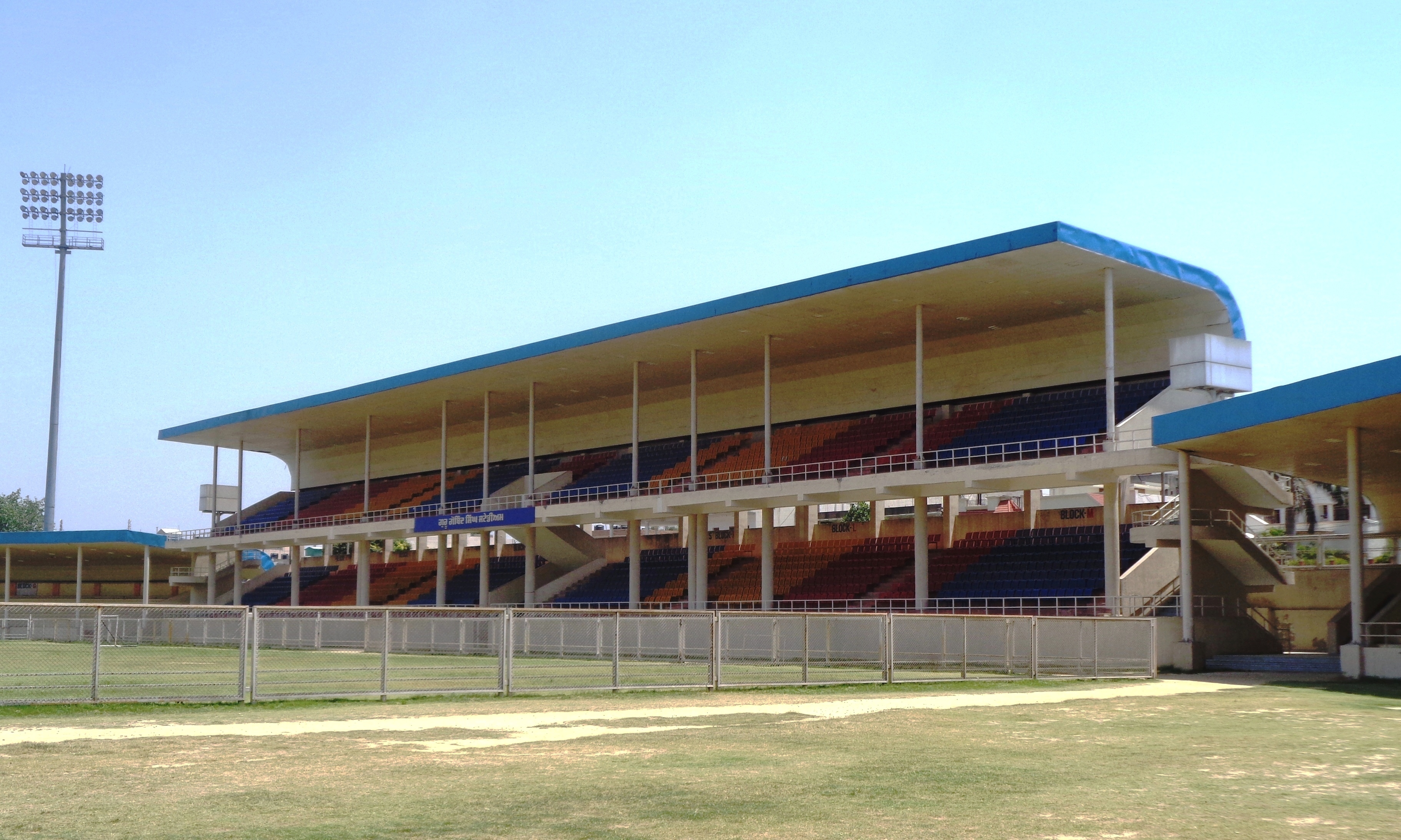 GURU GOBIND SINGH STADIUM, JALANDHAR, PAVILION-2